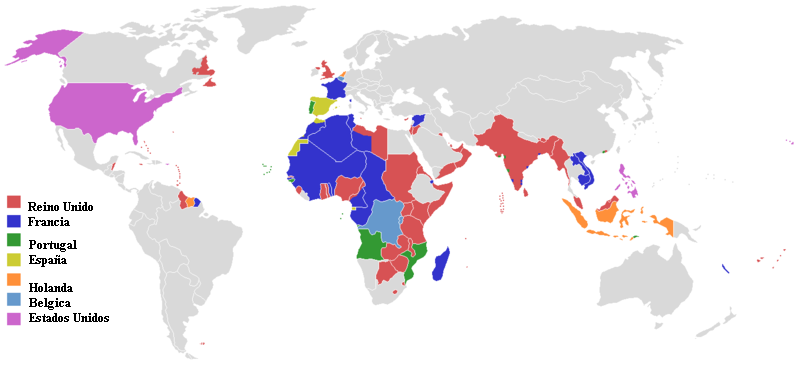 Colonization 1945 Spanish text